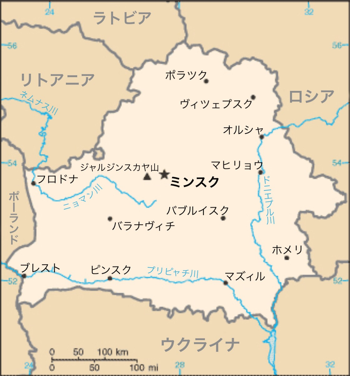 Map of Belarus in Japanese (from CIA World Factbook)